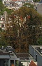 Anne Frank Tree Photograph taken by Stephane D'Alu in September 2003.